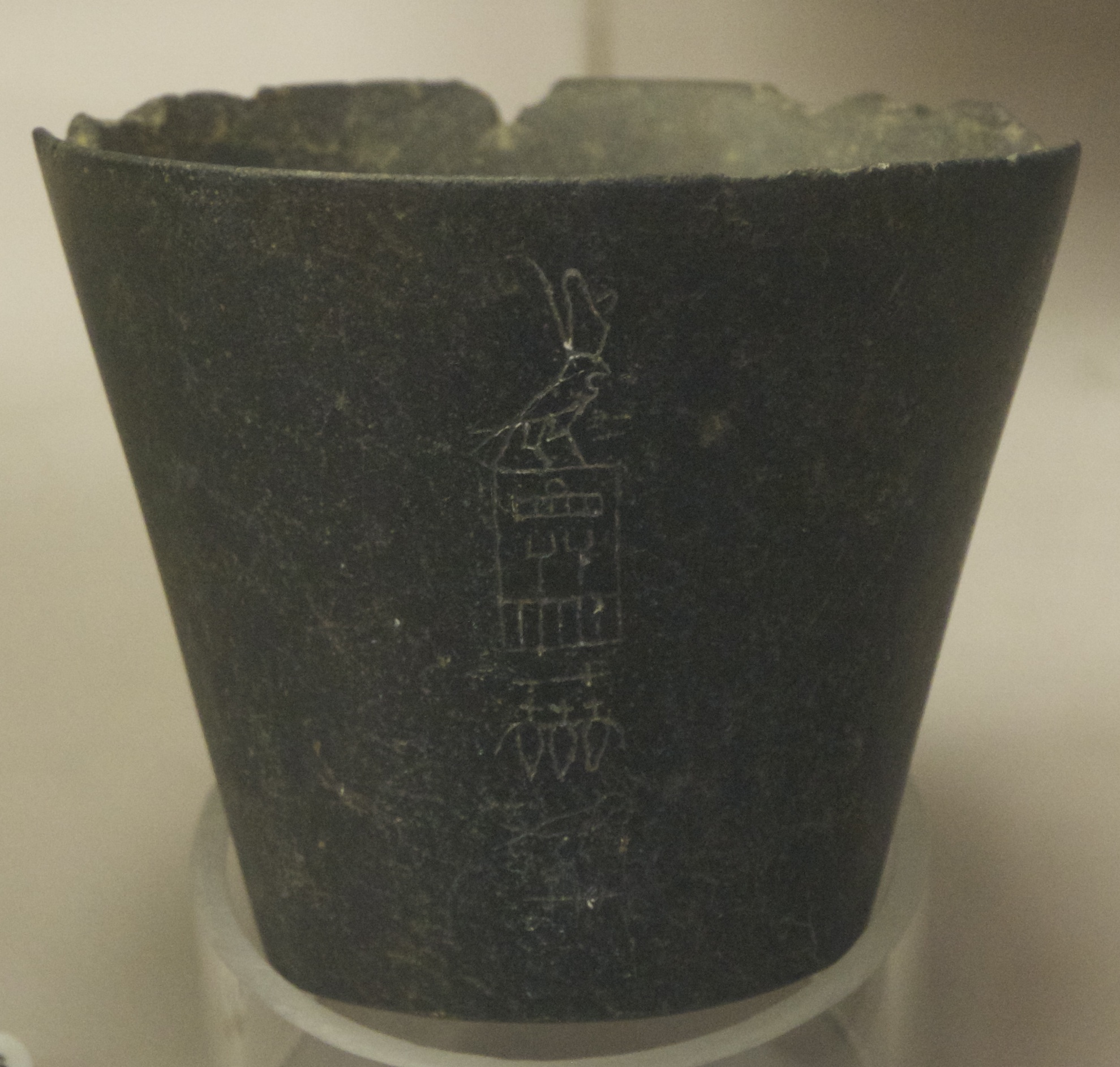 Stone vase of Hotepsekhemwy, Musee National des Antiquites, St Germain en Laye.